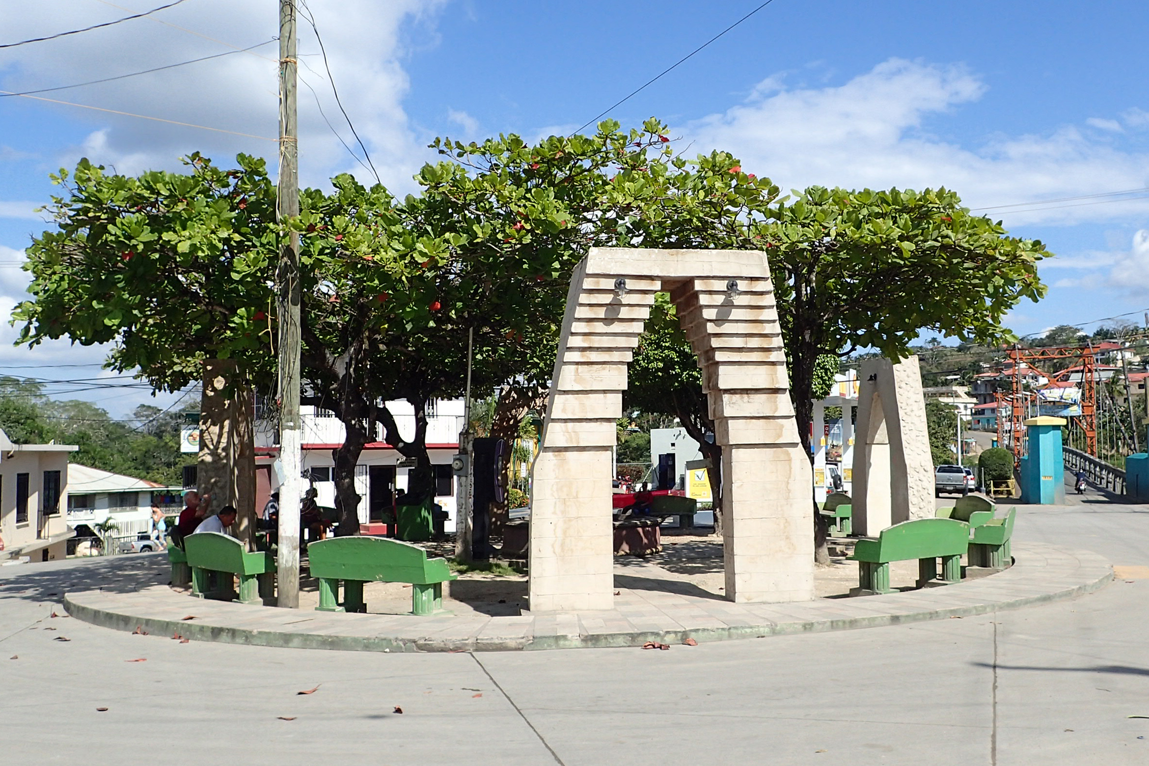 Roundabout park in downtown San Ignacio, Belize